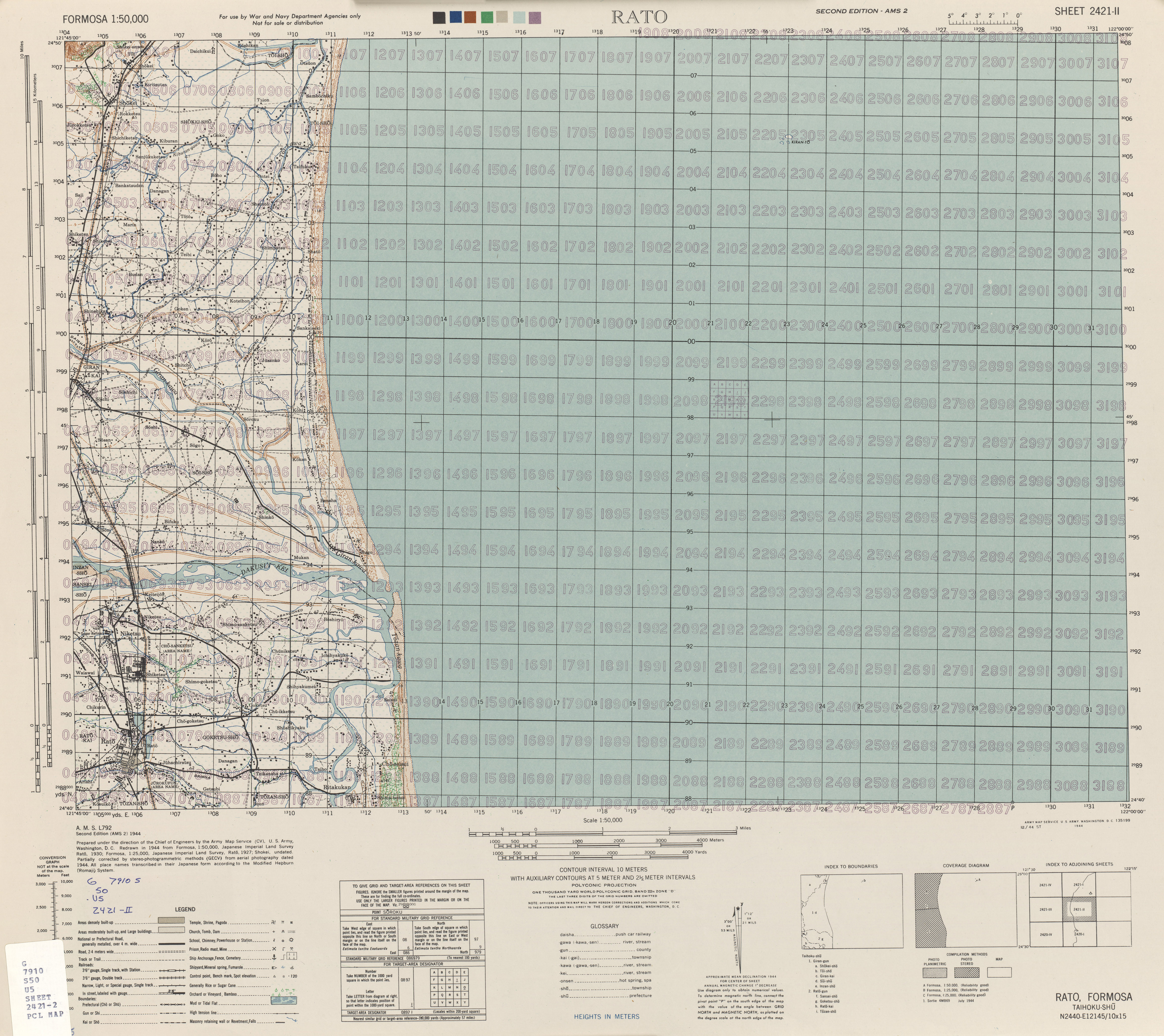 Series L792